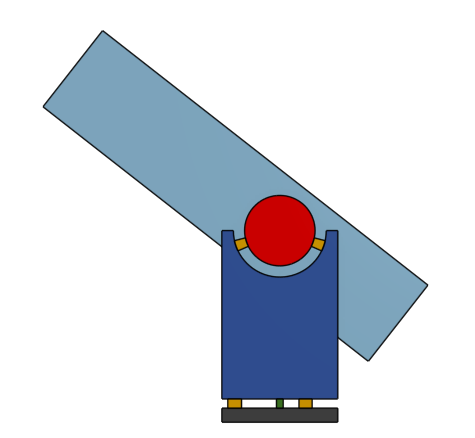 Dobson mount schematics